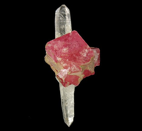 Rhodochrosite, Quartz Locality: Climax Mine (Climax Open Pit Mine), Climax, Climax District, Lake County, Colorado, USA (Locality at ) Size: 2.4 x 1.1 x 1.0 cm. One of the lesser known, yet important localities for Rhodochrosite in Colorado is the Climax Mine. This mine is actually a Molybdenum mine with a very large open pit and some underground tunnels. This floater specimen hosts a single, gem quality, doubly-terminated, "needle" Quartz crystal with a few sharp, translucent, red/pink rhombohedra of Rhodochrosite perched directly in the center. Ex. Jaime Bird Collection.